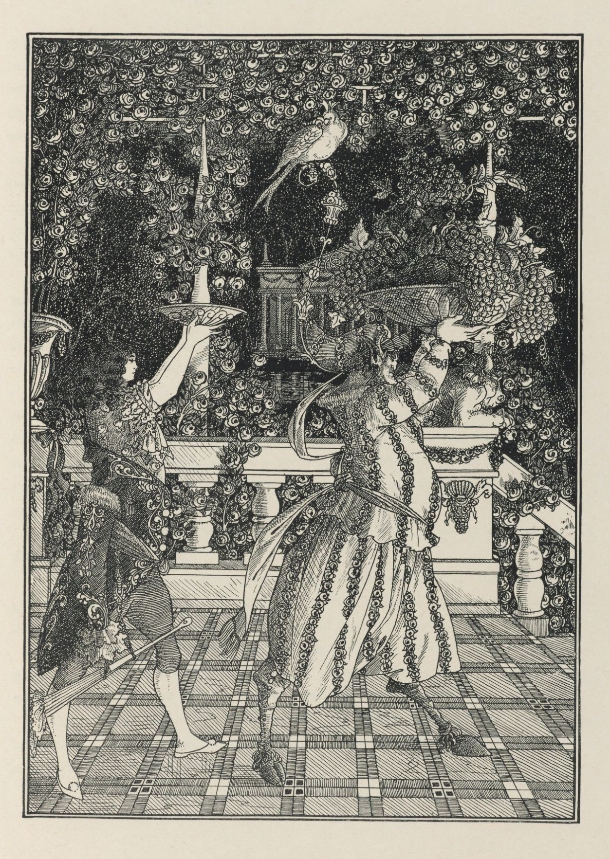 Illustration ("the fruit bearers") by Aubrey Beardsley (1872-1898) from Savoye, a London-based magazine edited by Arthur Symonds. 1896. HEW 11.10.11, Houghton Library, Harvard University